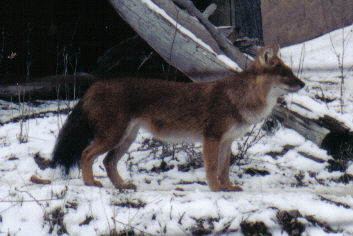 Dhole at the Toronto Zoo.